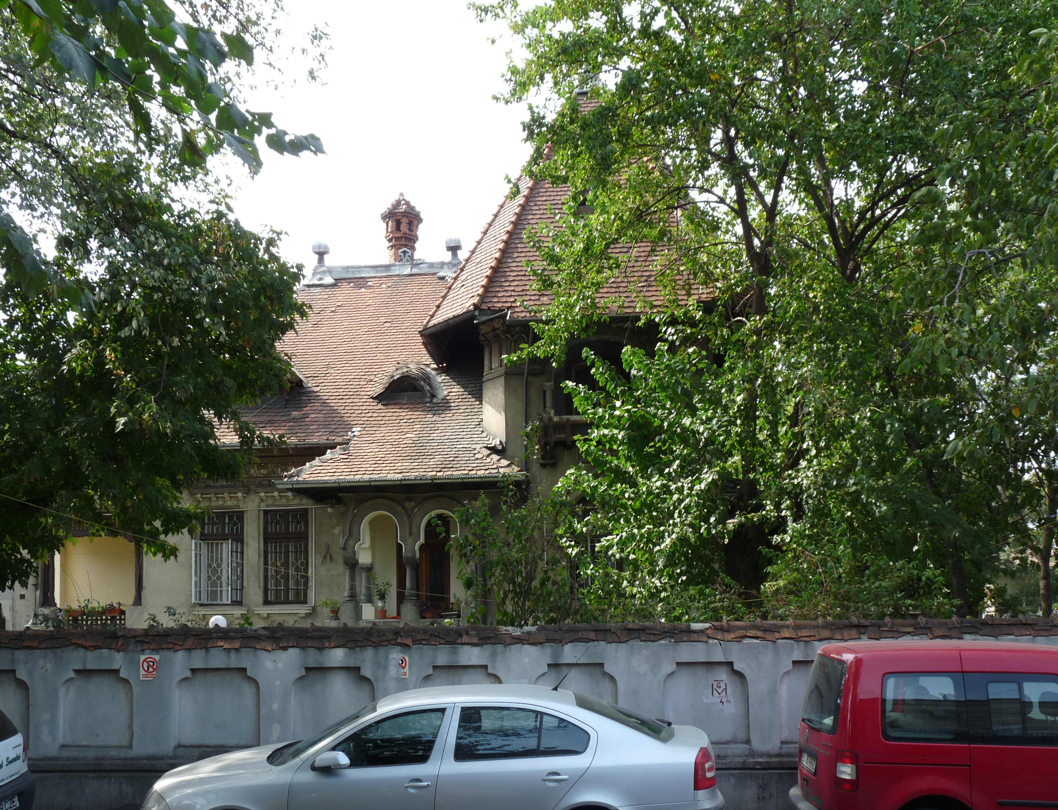 Gheorghe Petrescu house in Toamnei street, Bucharest, RomaniaRomână: Casa Gheorghe Petrescu din strada Toamnei, București, România